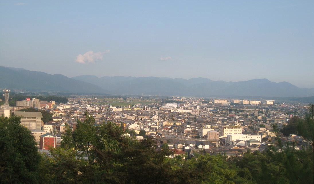 A view of downtown Yokaichi (Higashiomi city, Shiga, Japan) taken from Enmei park.